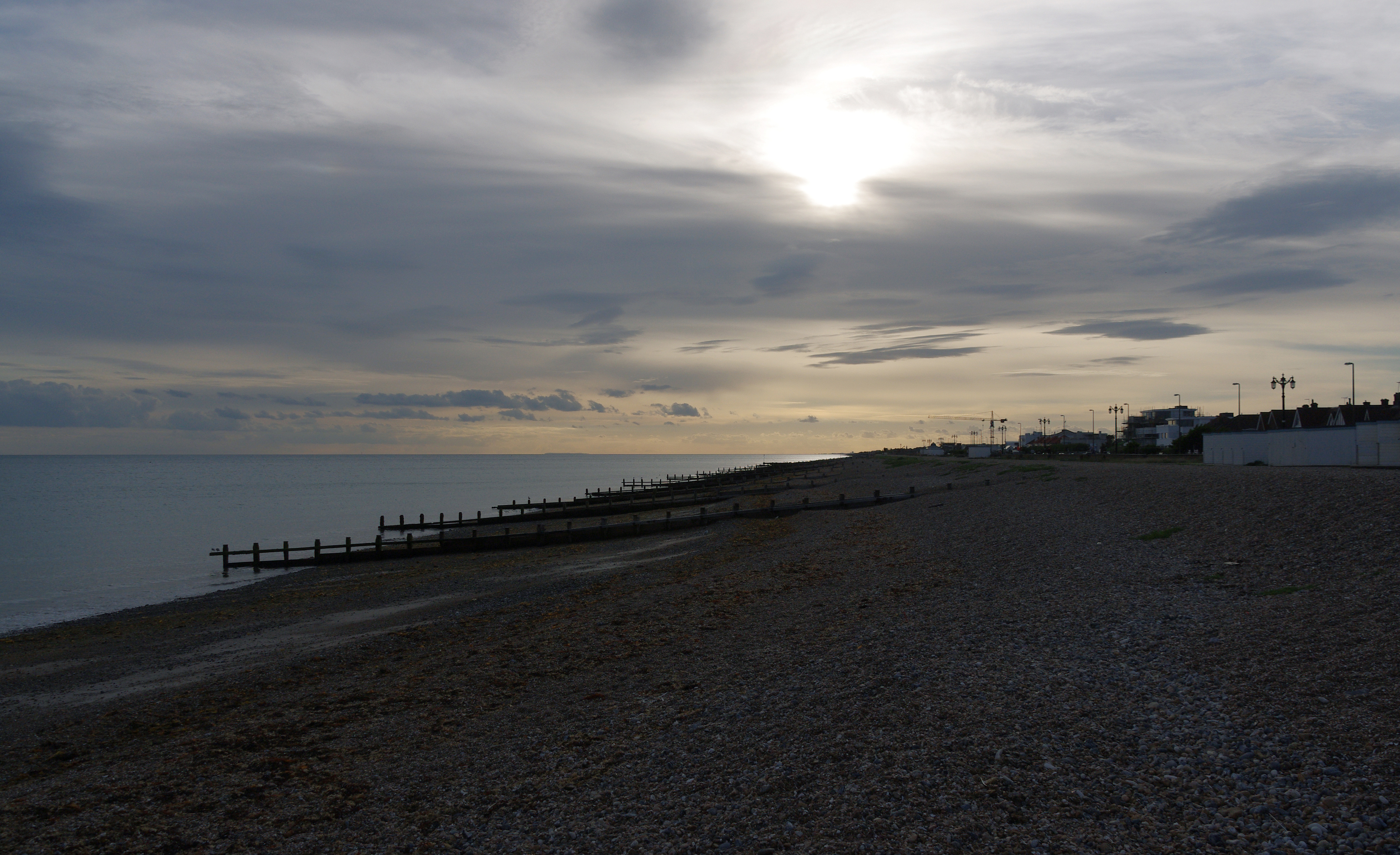 The sea at Worthing, Sussex.